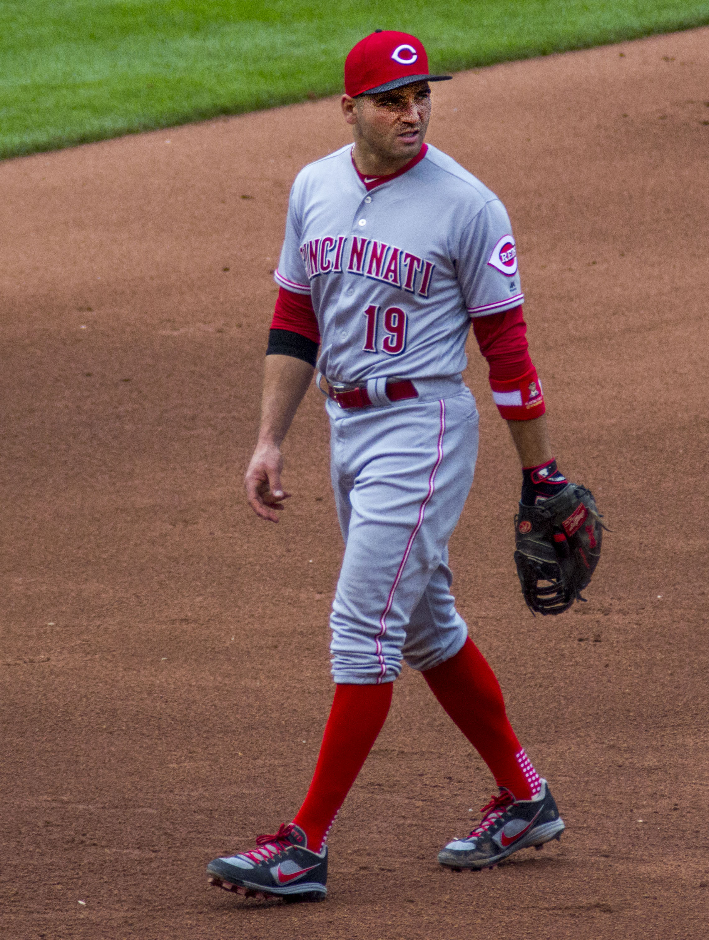 Reds player Joey Votto, in St.Louis, 2017.